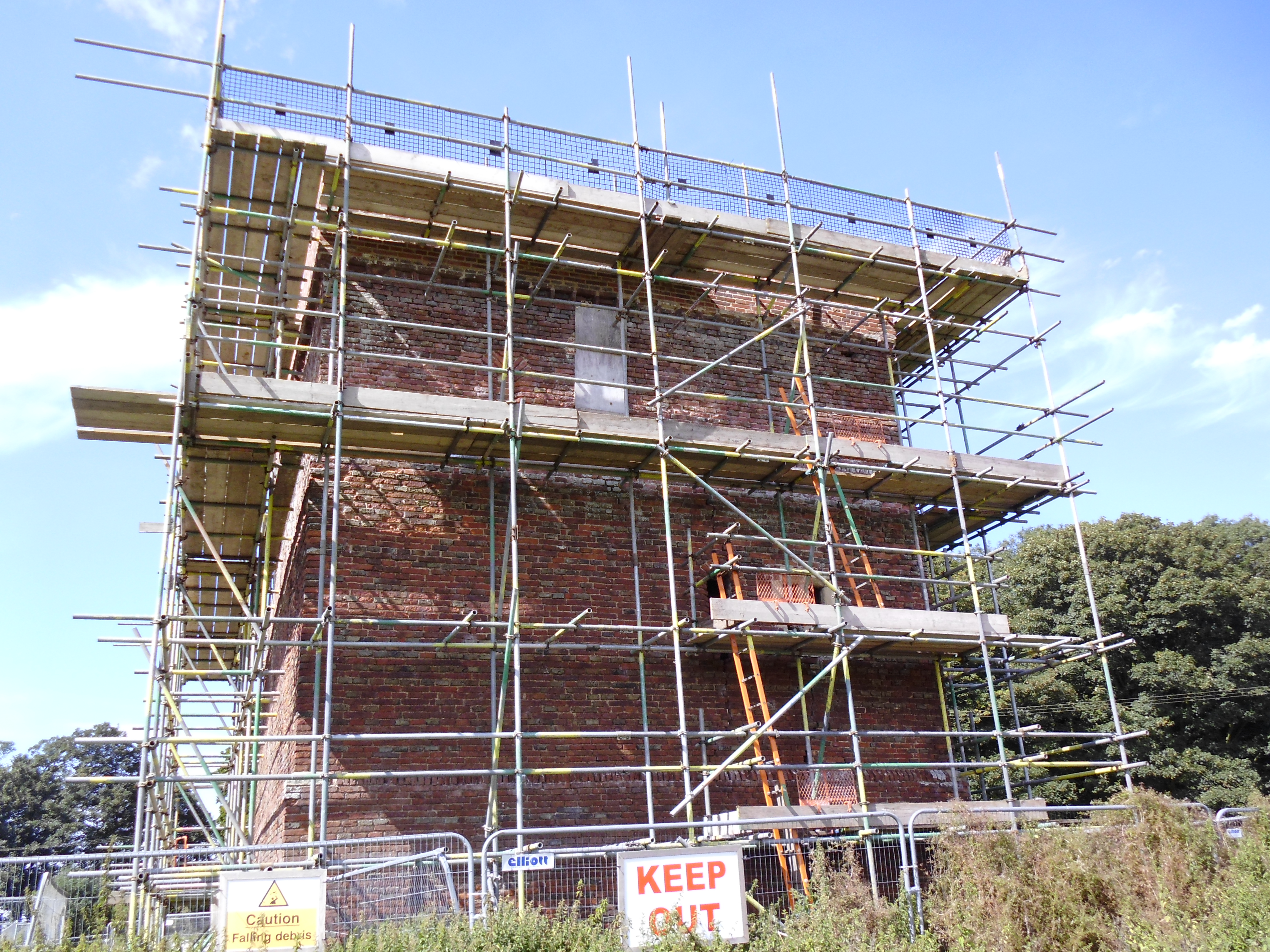 Rear face of Paull Holme Tower surrounded by scaffolding for restoration works. Paull, East Riding of Yorkshire, England.